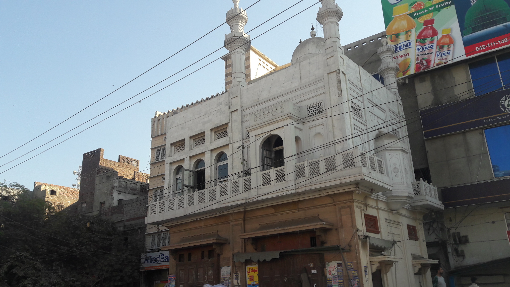 Masjid Shab Bhar, Lahore